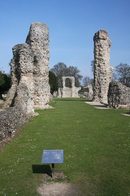 South Transept of remains of Norman Church of the Abbey of St Edmund in Bury St Edmunds, Suffolk, England. A Grade I listed building.